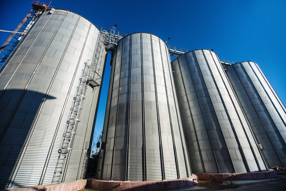 Silos of Mak Mlin company